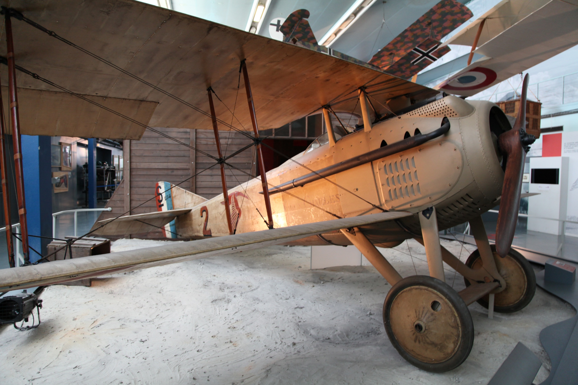 Spad VII of G. Guynemer, The "Old Charles", 1916. - WW1 - Museum of Air and Space - Le Bourget